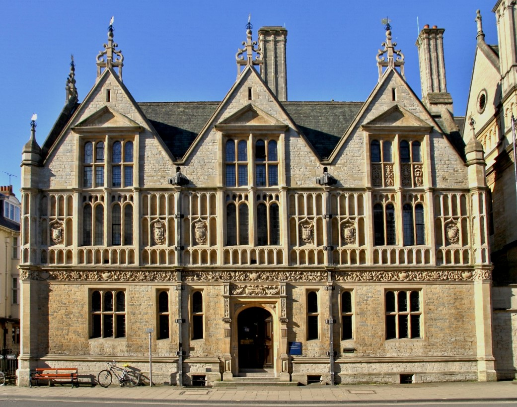 74 High Street, Oxford, England, seen from the north. Built in 1887 as the Delegacy of Non-Collegiate Students. Later used as the Ruskin School of Drawing.